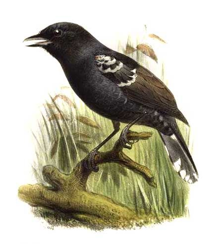 Thamnophilus caerulescens subespecies melanchrous.